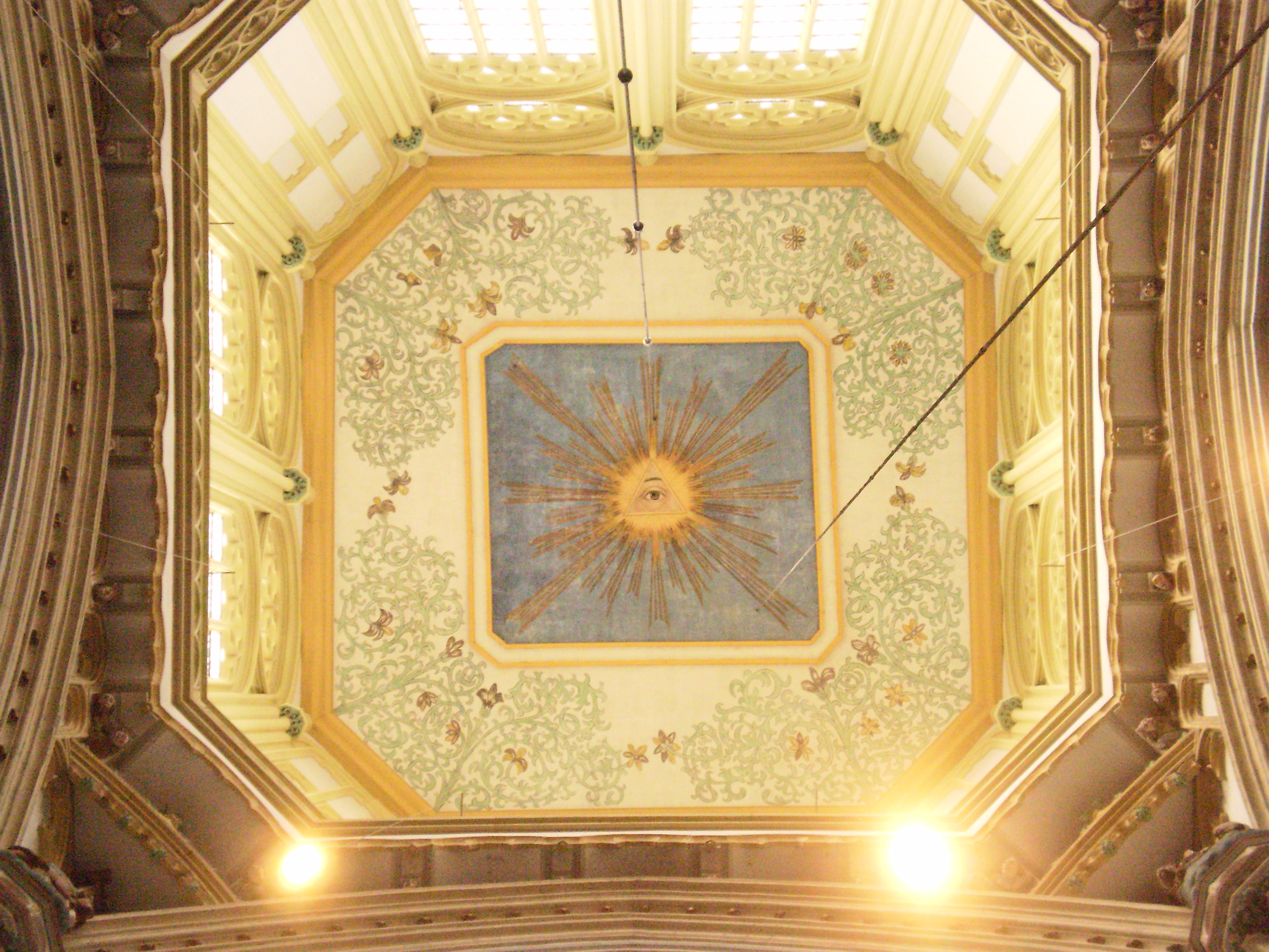 Fresco depicting Eye of providence, ceiling of Saint John's Cathedral, 's-Hertogenbosch